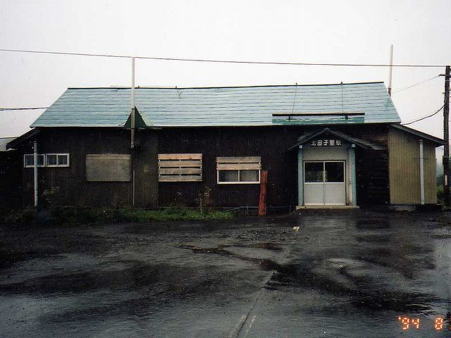 Kita-moshiri Sta.